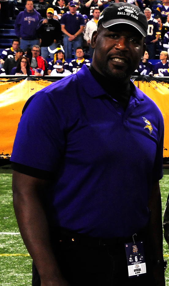 Former Minnesota Vikings guard Randall Mc Daniel